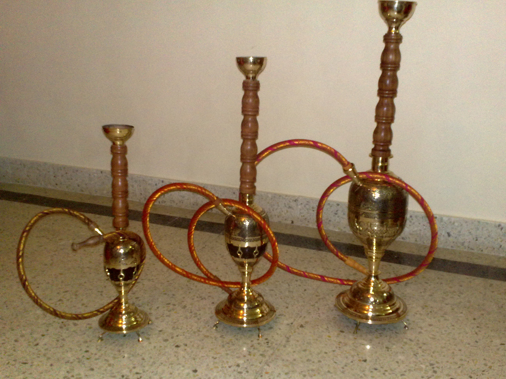 Malabar Hookahs in three different sizes